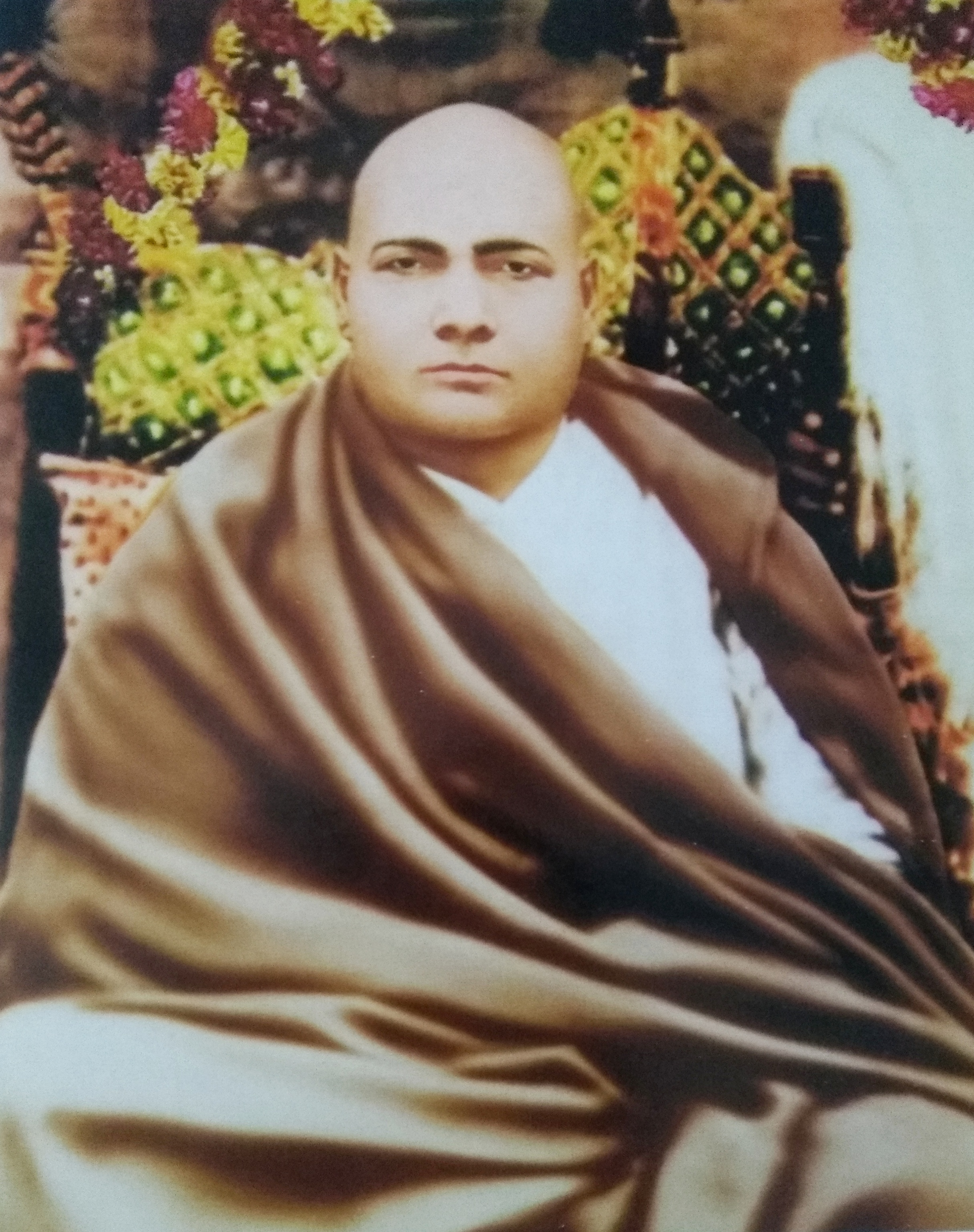 Paramhans Dyal Ji